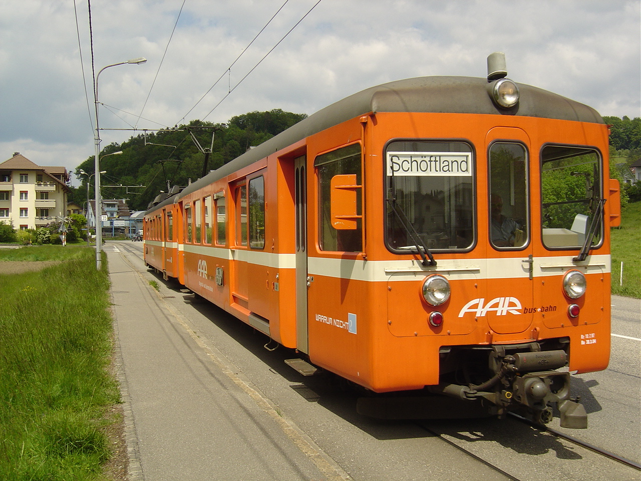 Wynental- und Suhrentalbahn (WSB) in Muhen (altes Trasse)